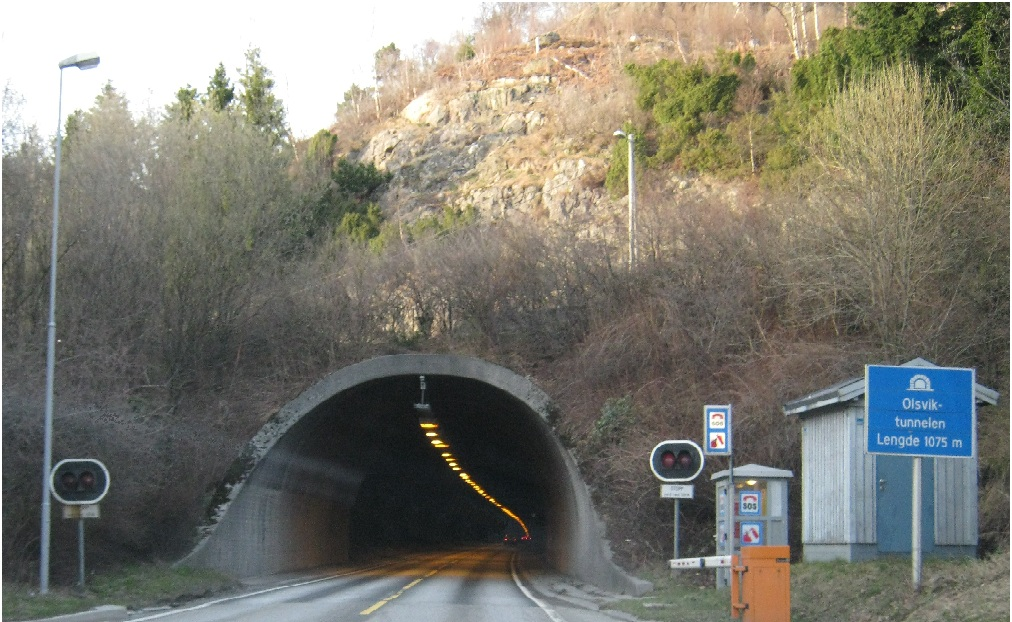 The south entrance to Olsvik Tunnel.